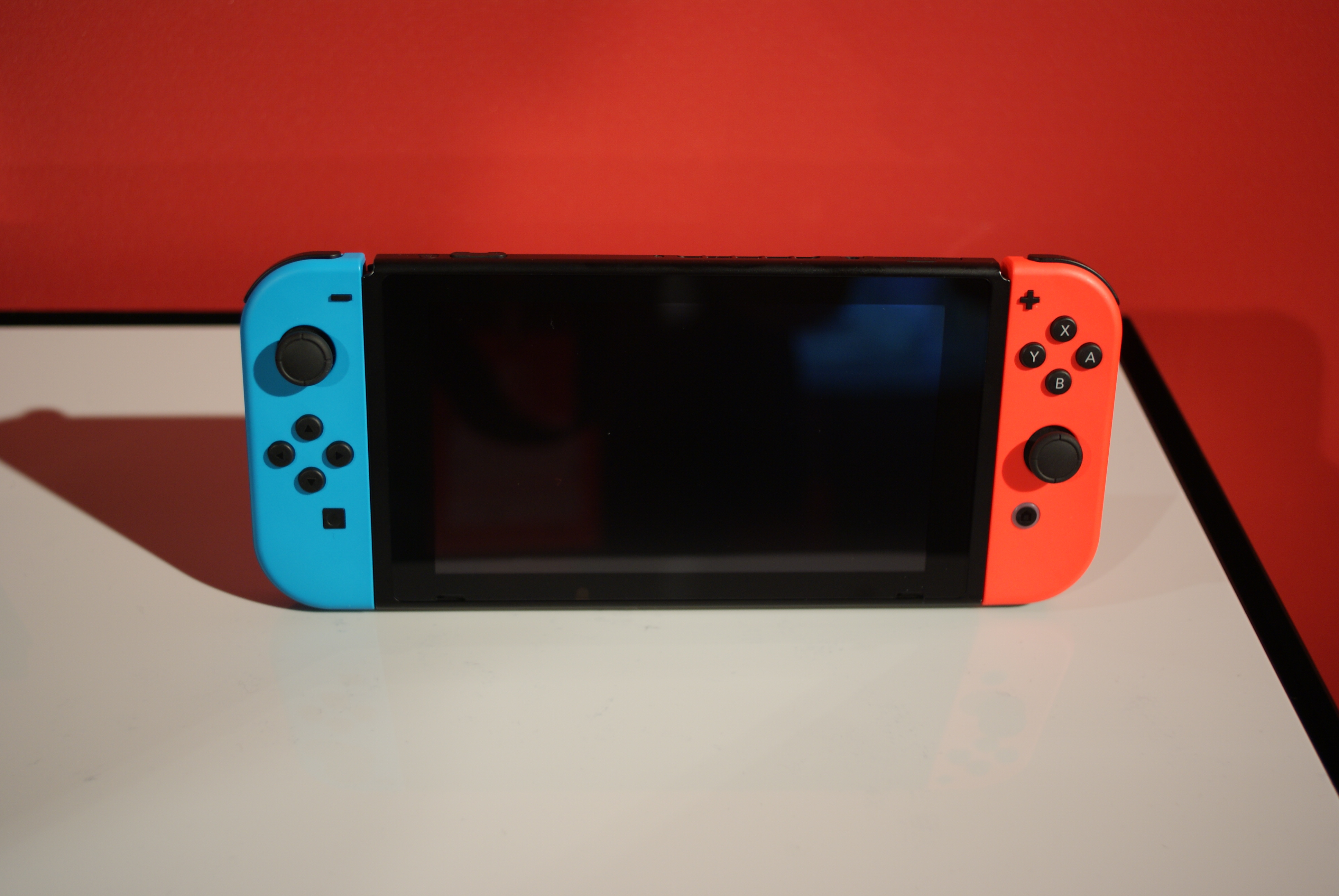 Nintendo Switch console with neon blue and red Joy-Con attached.